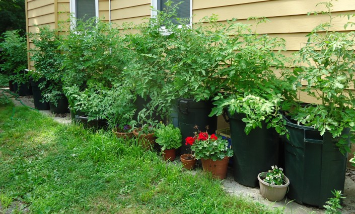 Tomato plants in July. One way to grow tomato plants, when space is limited, is to fill empty garbage cans with topsoil, with holes in the bottoms for drainage. A drip hose brings water. Metal supports with concentric circles help tomato plants grow upright. One benefit of the cans is that it is harder for creatures such as squirrels and chipmunks to eat the fruit since it is up off of the ground. In Summit, New Jersey.